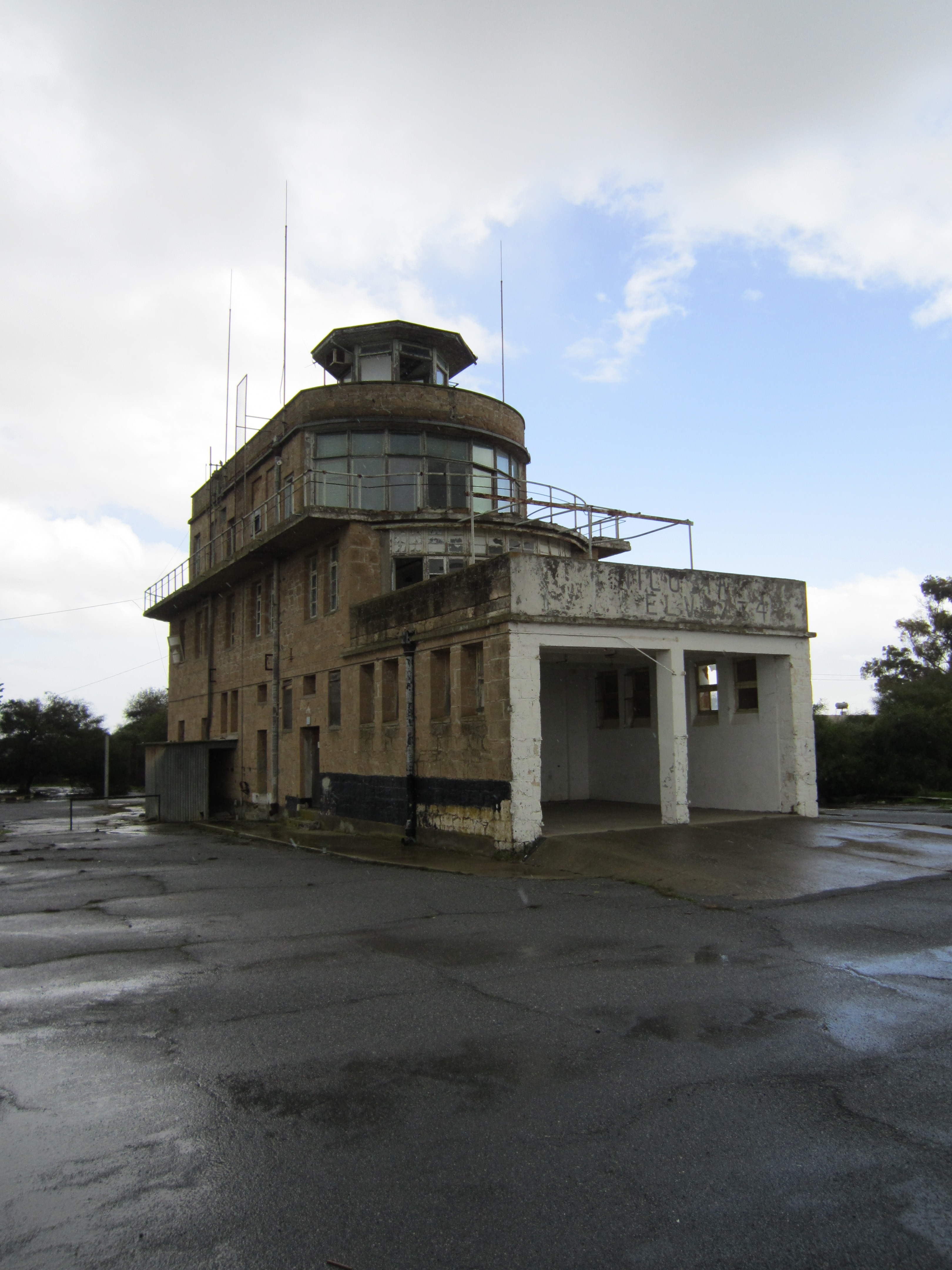 The original 1940s-era control tower of RAF Nicosia, one of the last few remaining Second World War RAF control towers in existence. The sign above the opening at the front reads 'NICOSIA - ELEVATION 734'.